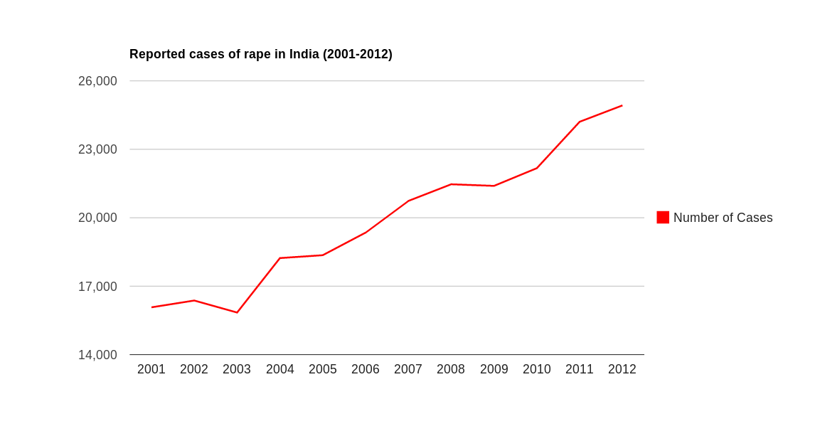 Graph of reported rape case in India in period 2001-2012. The data is based on the data published by the National Crime Records Bureau.